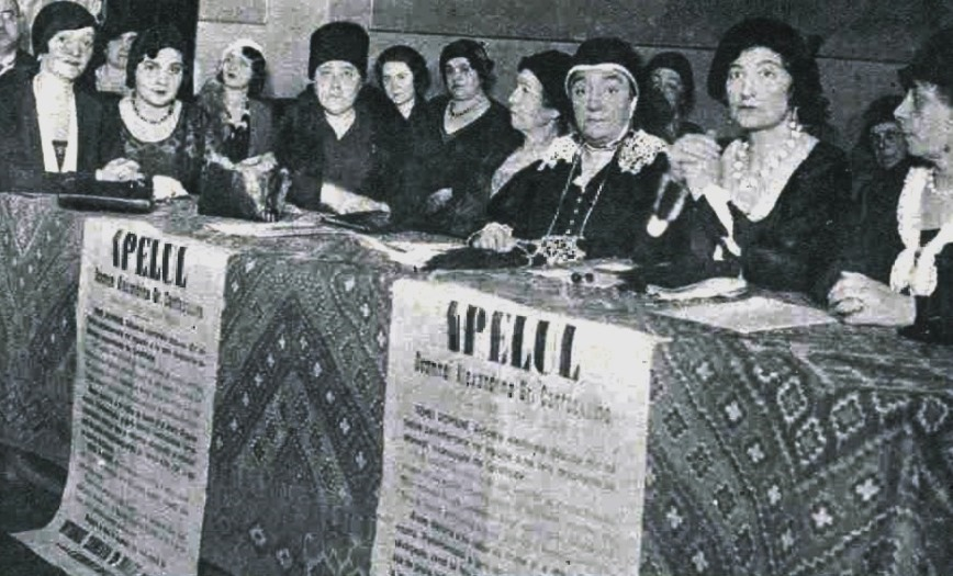 Right-wing feminist congress in Bucharest, Romania, March 1932. Hosted by the National Orthodox Society of Romanian Women (whose president, Alexandrina Cantacuzino, is pictured front row, third from right), it demanded from King Carol II the introduction of womențs suffrage and full civic rights.